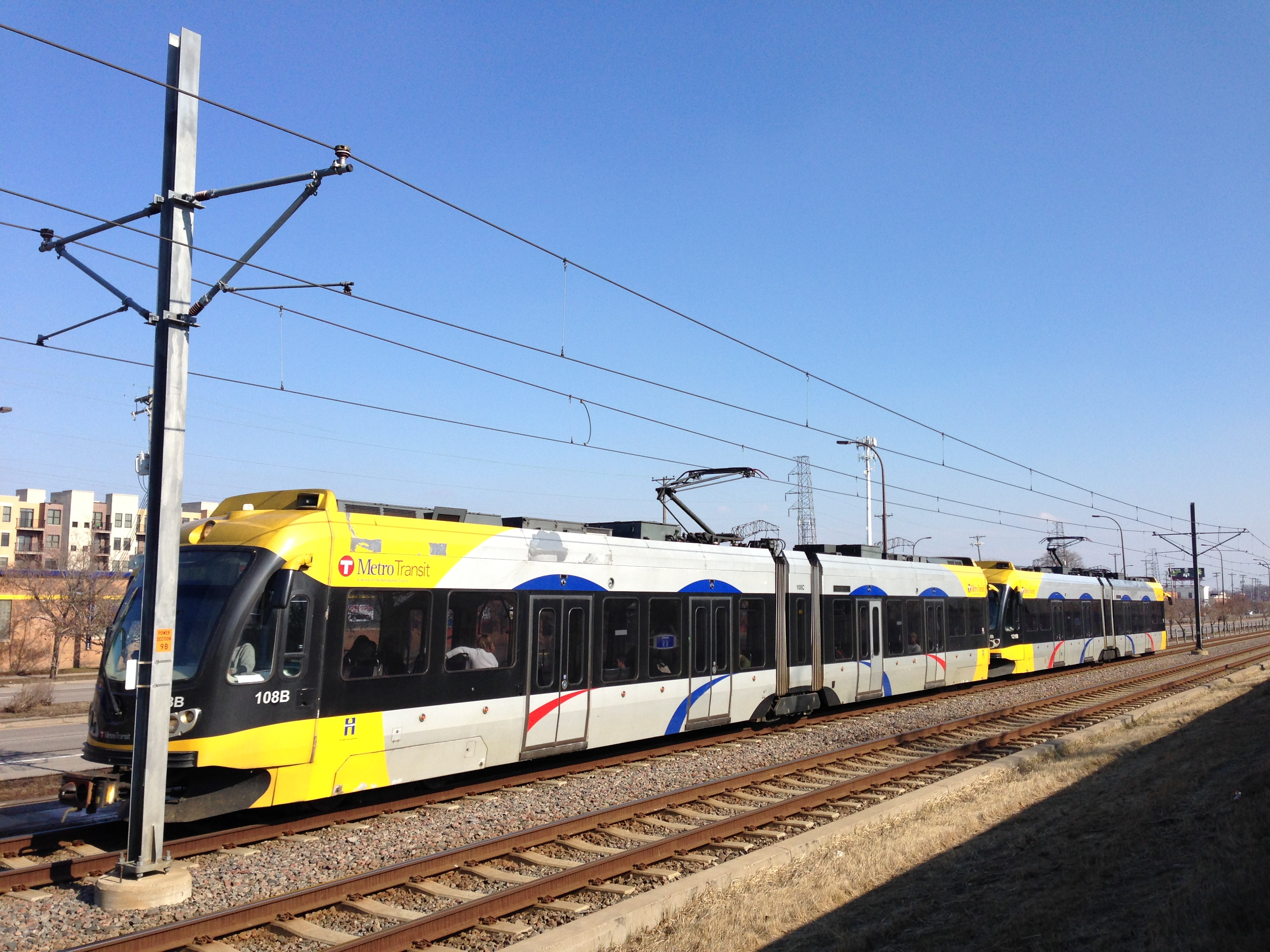 A Blue Line light rail train in south Minneapolis, Minnesota, near Hiawatha Avenue and E 43 St. A Sunday train with only two cars compared to the weekday three.